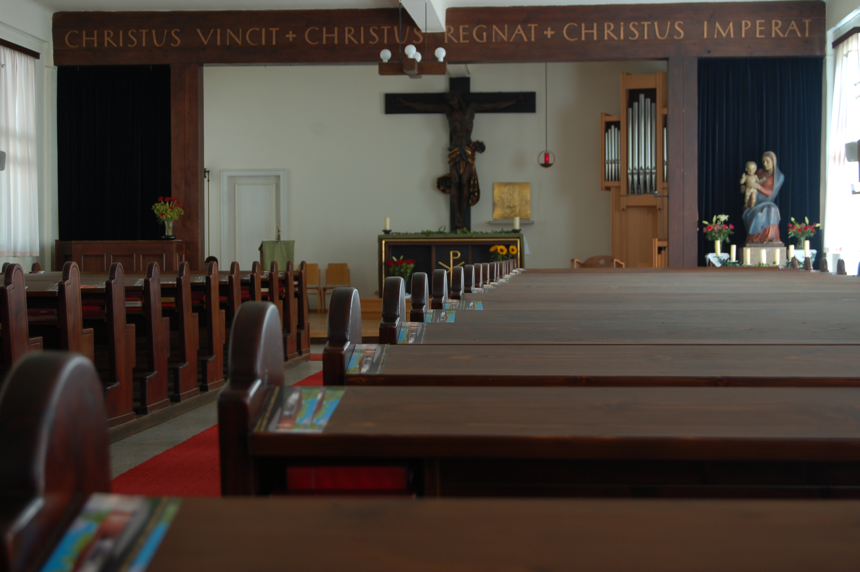 Interior of Erlöserkirche (Redeemer church) in Wiener Neustadt, Lower Austria